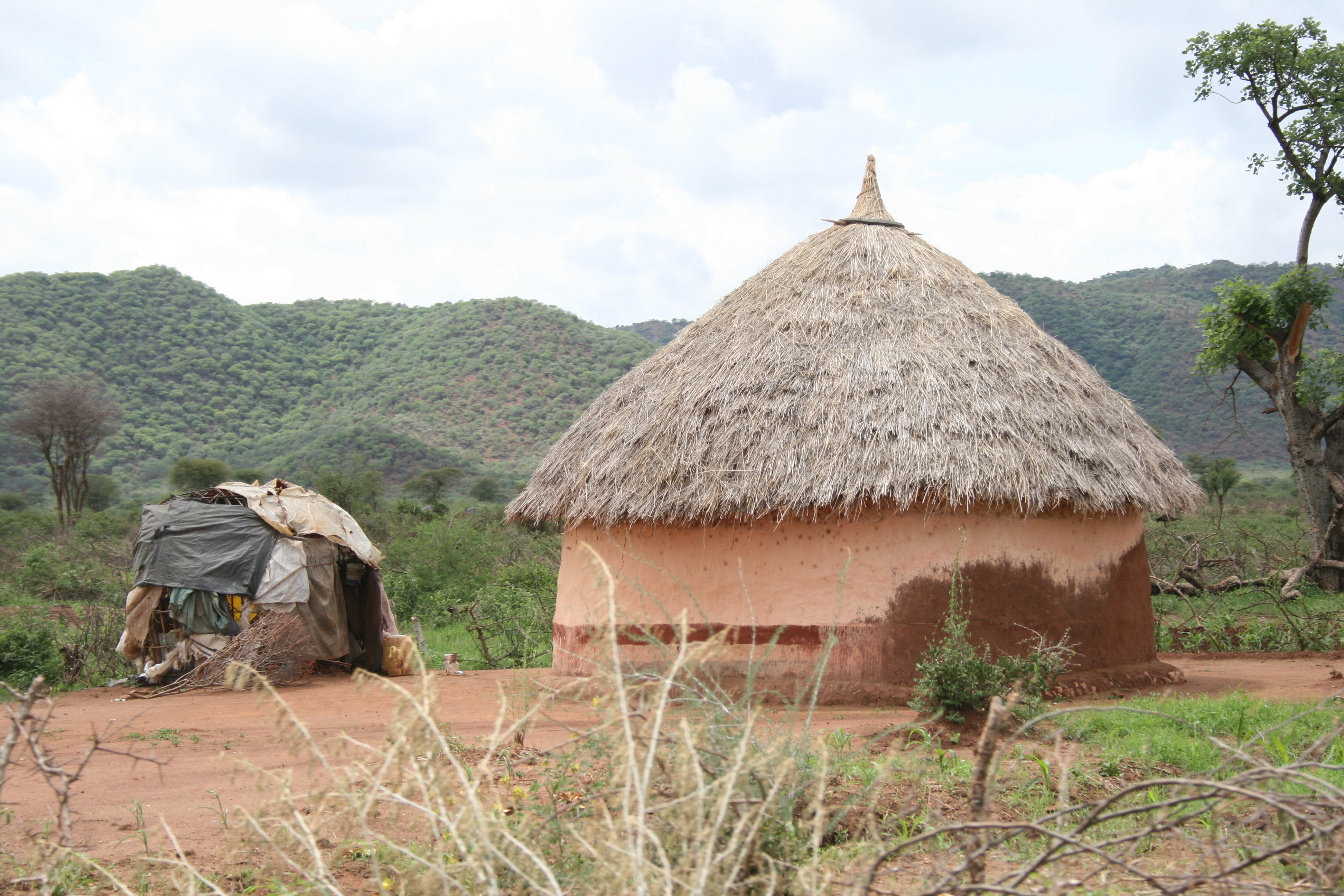 Housing, Kenya 2006. Photo: AusAID